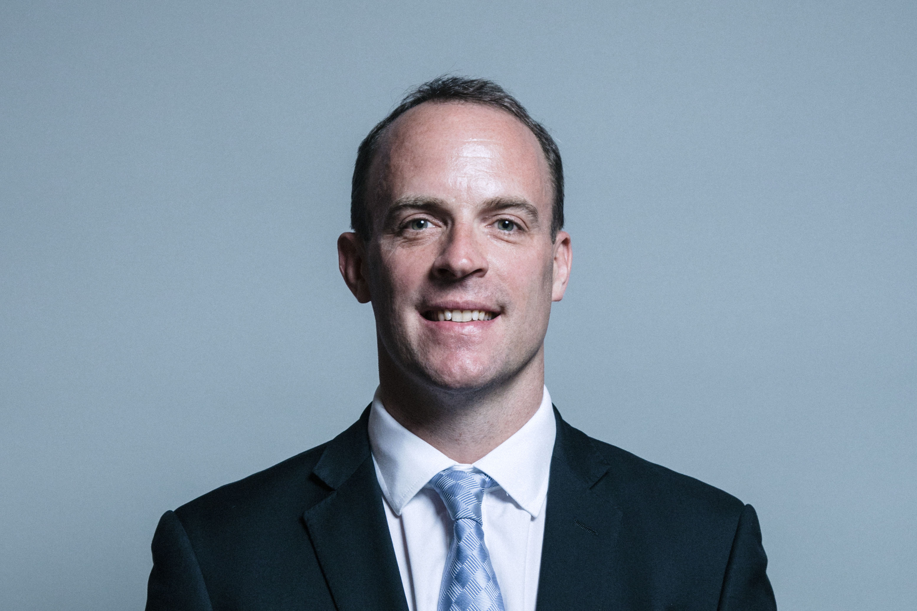 Official portrait of Dominic Raab